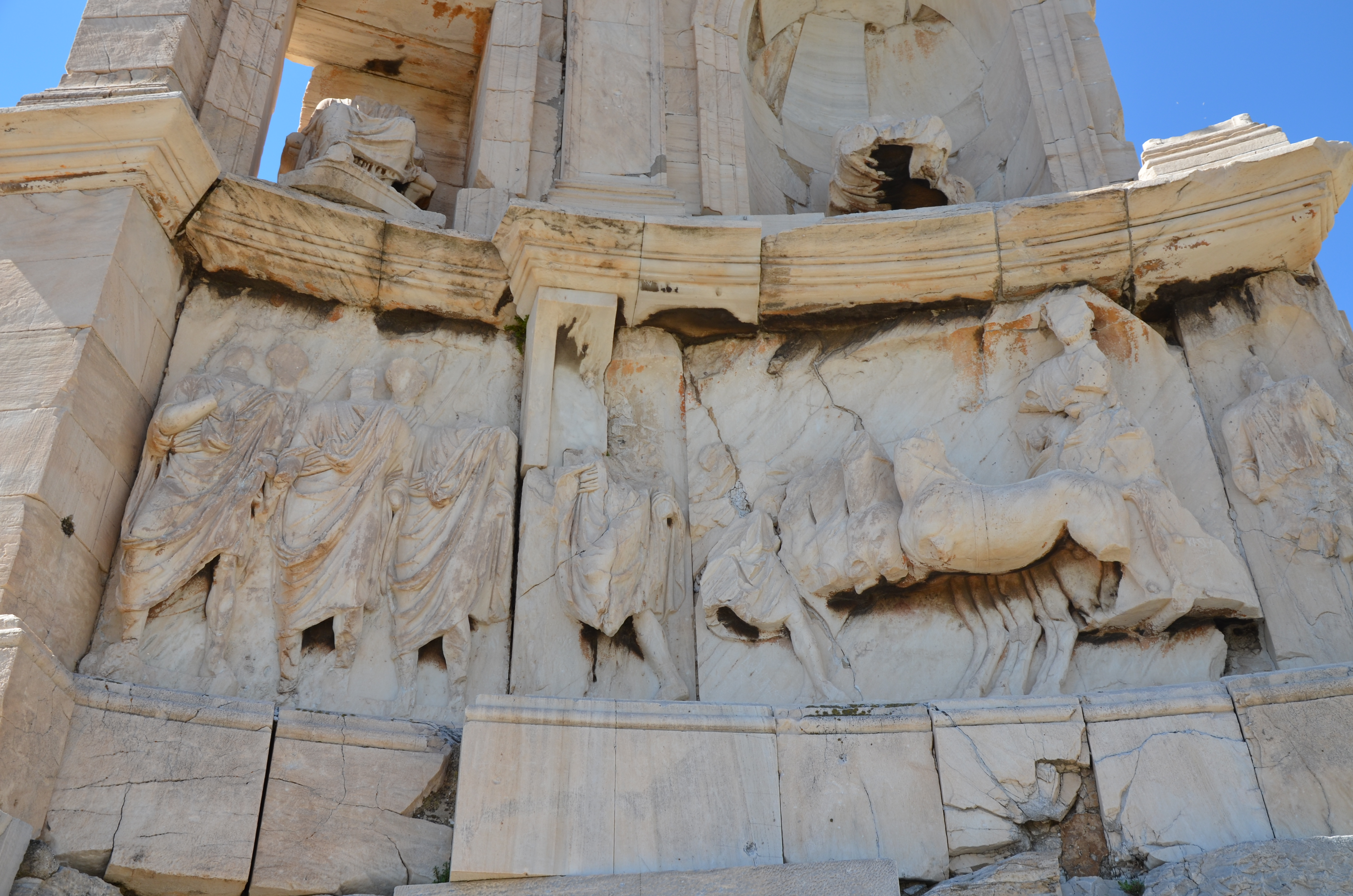 Gaius Julius Antiochus Philopappos was a prince of Commagene, a kingdom in Upper Syria, who was overthrown by the Romans in 72 A.D. Exiled from his native country, he settled in Athens and became a benefactor of the city. Between A.D.114-116 he built his own funeral monument, in a very privileged position facing the Akropolis, which dominated the area and gave his name to the hill. The monument, built from Pentelic marble, is 12 metres height and consists of a large apse-shaped wall on a pedestal of porous limestone. The frieze on the lower story represents Philopappos as (suffect) consul (AD 109) riding chariot - quadriga - and led by lictors, the upper part hosts the statues of himself (centre), his grandfather Antiochus IV Epiphanes (left), and the founder of the dynasty, Seleukos I Nikanor (right; now lost).